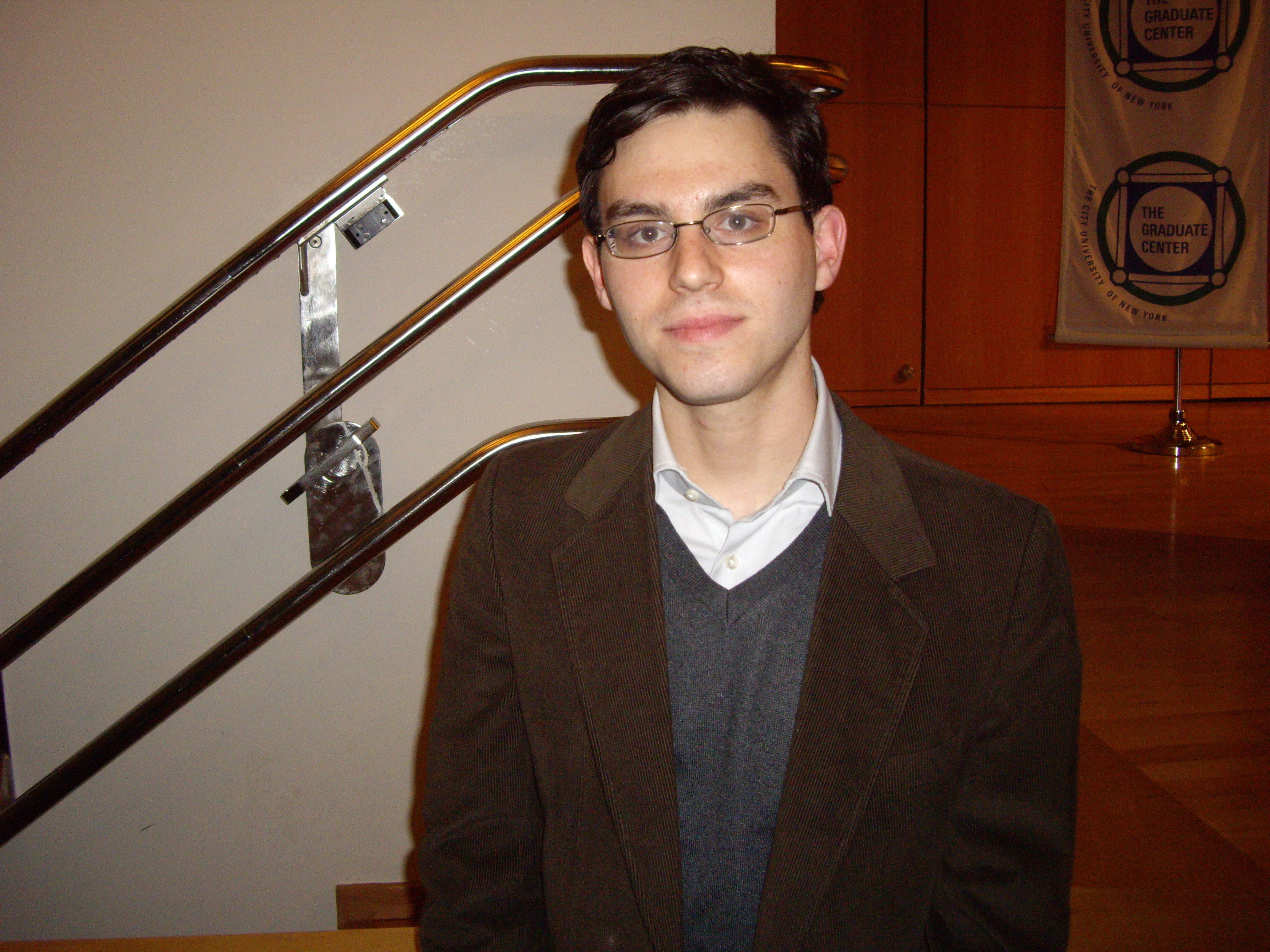 Joshua Foer at the Athanius Kircher Society Meeting, 2007